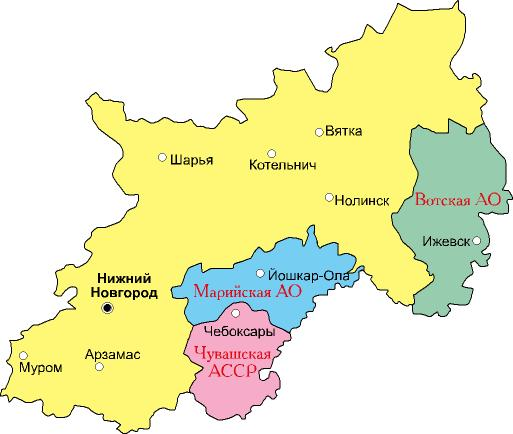 Map of Nizhegorodsky (Gorkovsky) kray (USSR)